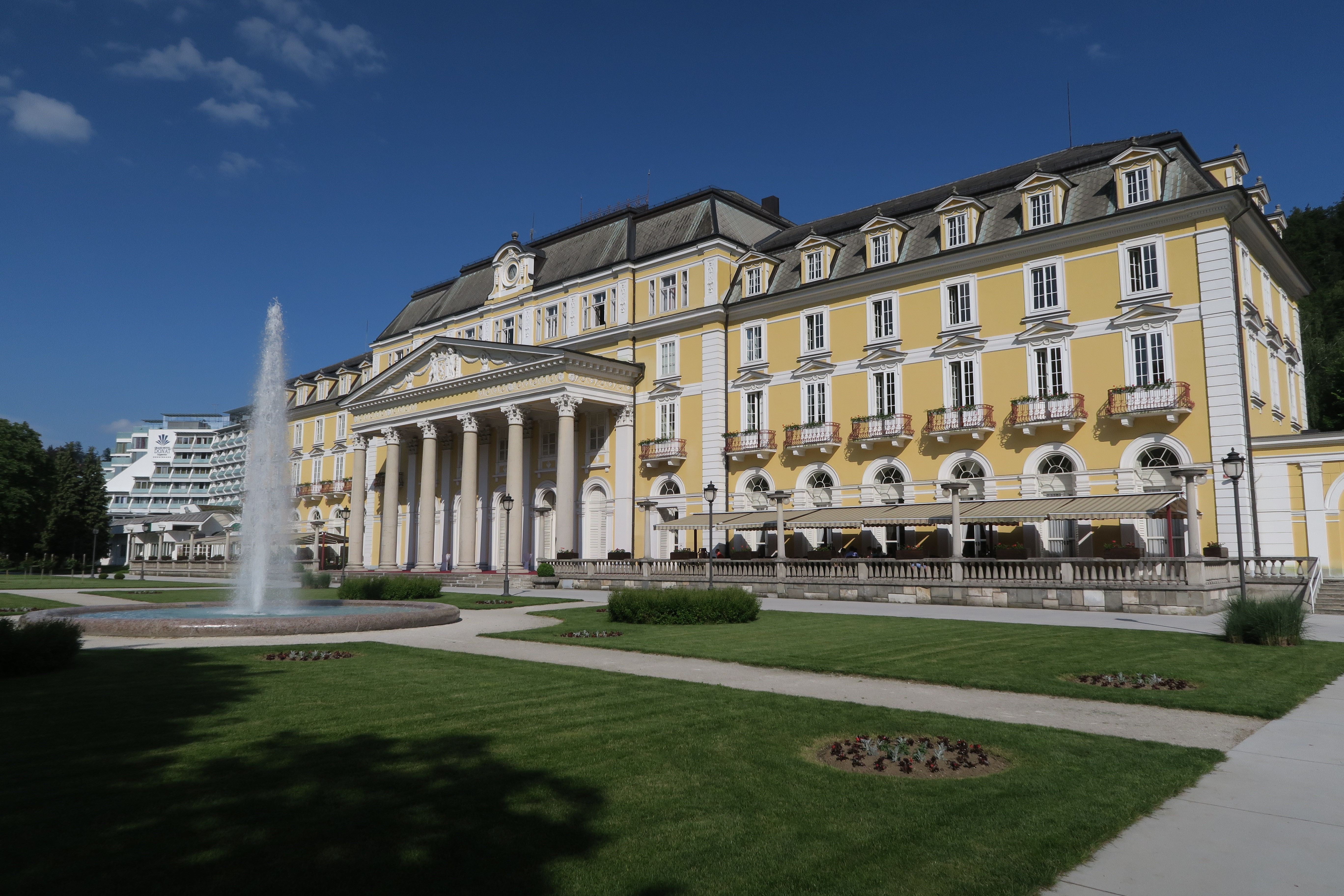 Grand Hotel Rogaška